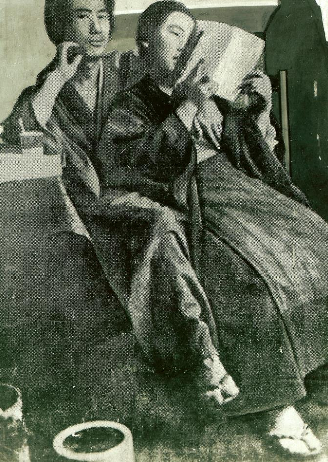 Park Yeol and Fumiko Kaneko (so-called "Objectionable Photograph")